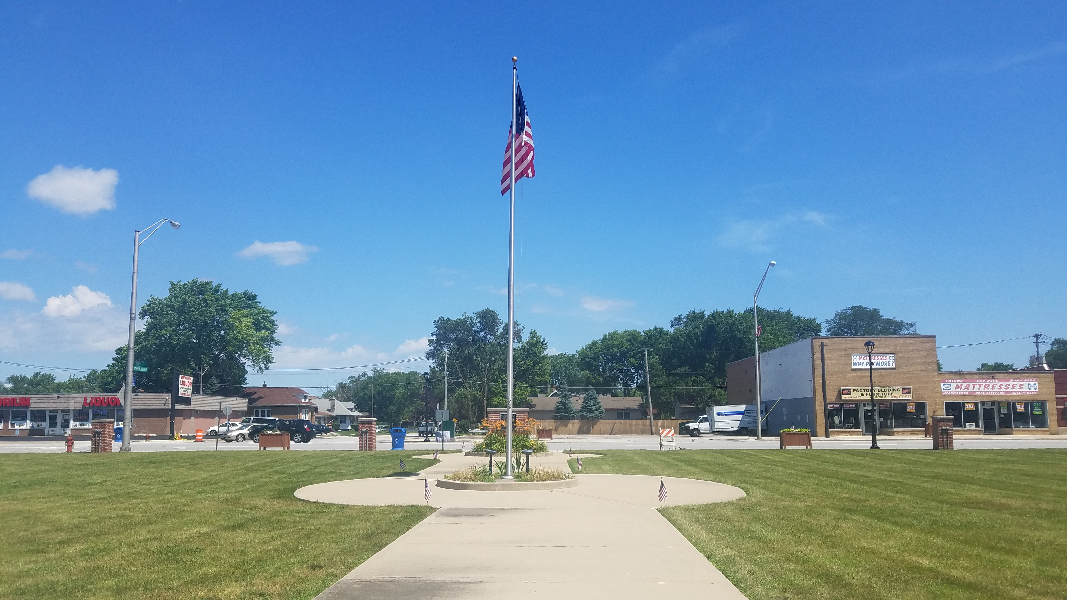 A photo of the USA Flag outside of the Midlothian Village Gazebo.